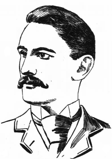 Charles Finley, Kentucky Congressman